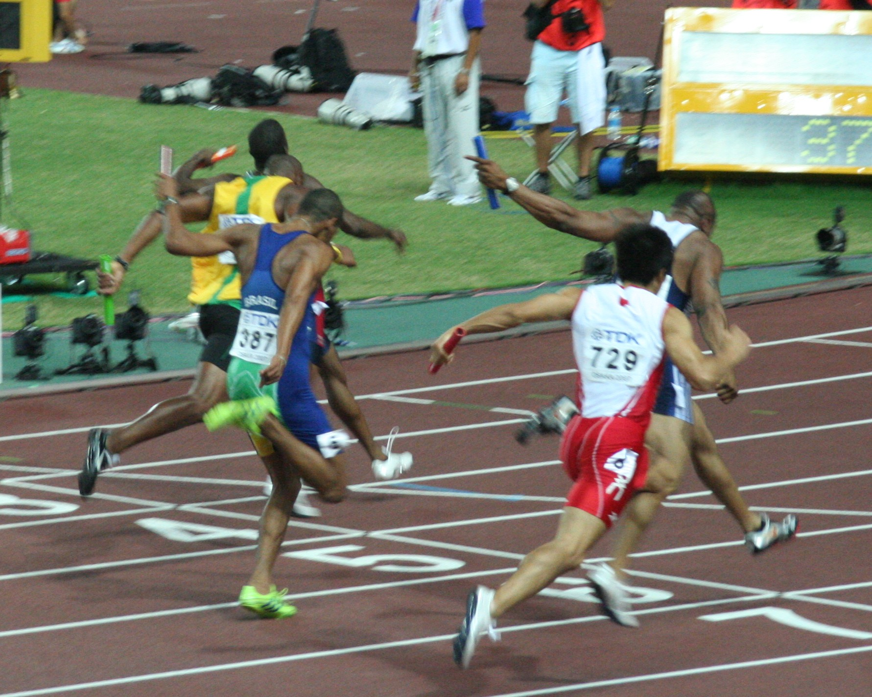 World Athletics Championships 2007 in Osaka - A tight finish of the men*s 4*100 relay final. US, Jamaica, UK, Brazil and Japan are coming in closely: Tyson Gay, Asafa Powell, Sandro Viana, Nobuharu Asahara, Mark Lewis-Francis